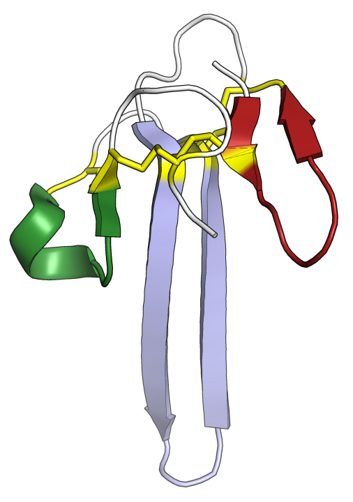 The crystal structure of mambalgin-1, a 57-residue protein of the three-finger toxin (3FTx) family isolated from the venom of the black mamba. Mambalgins are potent inhibitors of acid-sensing ion channels. Unlike most 3FTx proteins, which are usually neurotoxins, mambalgins produce analgesia through ASIC inhibition without apparent toxic effect in laboratory tests. Mourier, Gilles; Salinas, Miguel; Kessler, Pascal; Stura, Enrico A.; Leblanc, Mathieu; Tepshi, Livia; Besson, Thomas; Diochot, Sylvie; Baron, Anne (2016-02-05). "Mambalgin-1 Pain-relieving Peptide, Stepwise Solid-phase Synthesis, Crystal Structure, and Functional Domain for Acid-sensing Ion Channel 1a Inhibition". Journal of Biological Chemistry. 291 (6): 2616–2629. PMC 4742732. PMID 26680001.